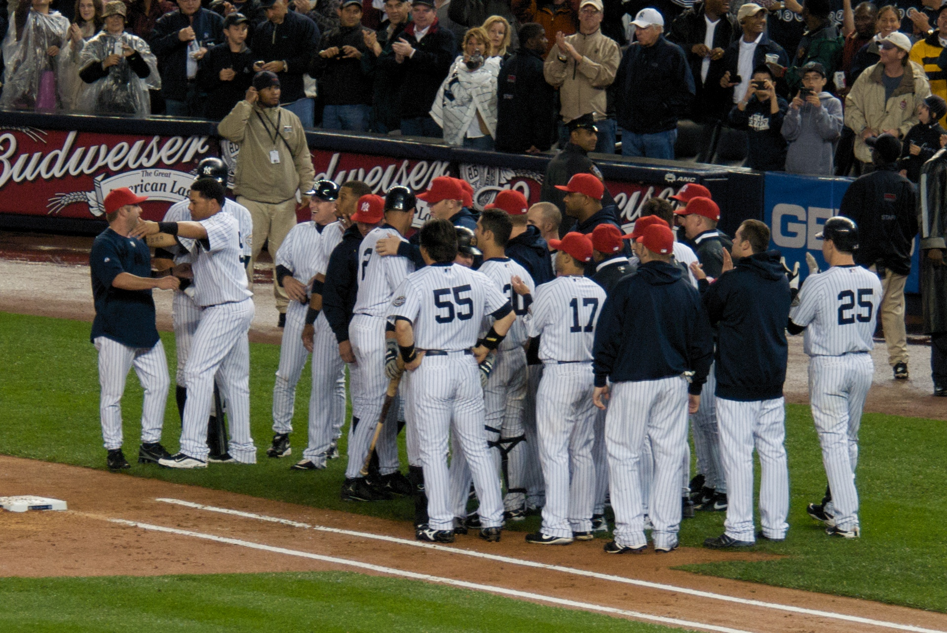 Yankees Celebrate Derek Jeter Hit #2722